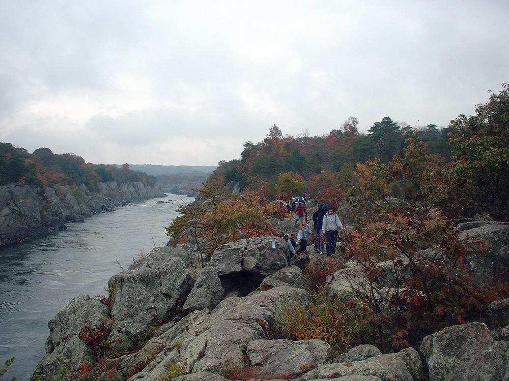 Billy Goat A trail overlooking Mather Gorge